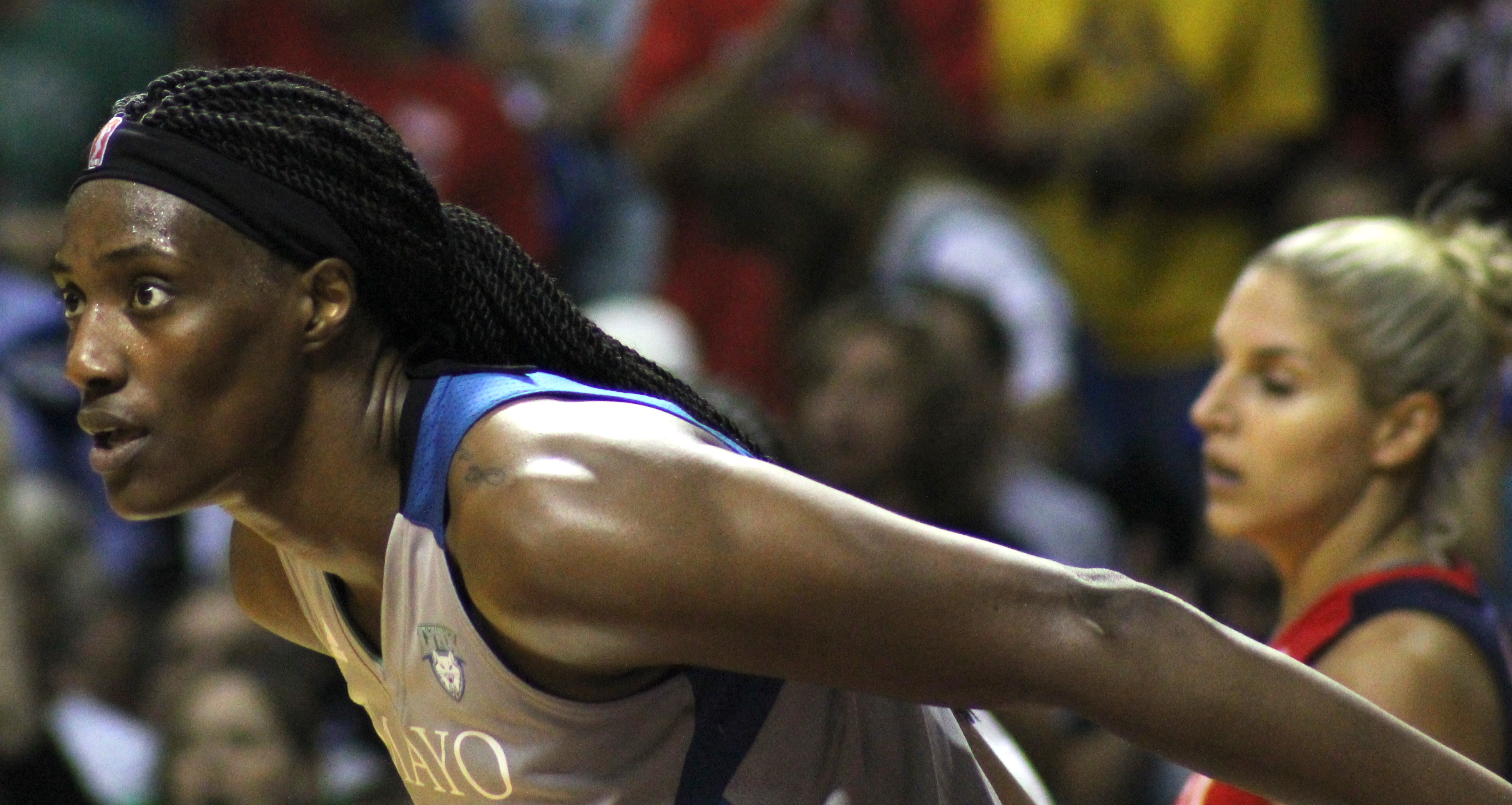 Sylvia Fowles (left) and Elena Delle Donne